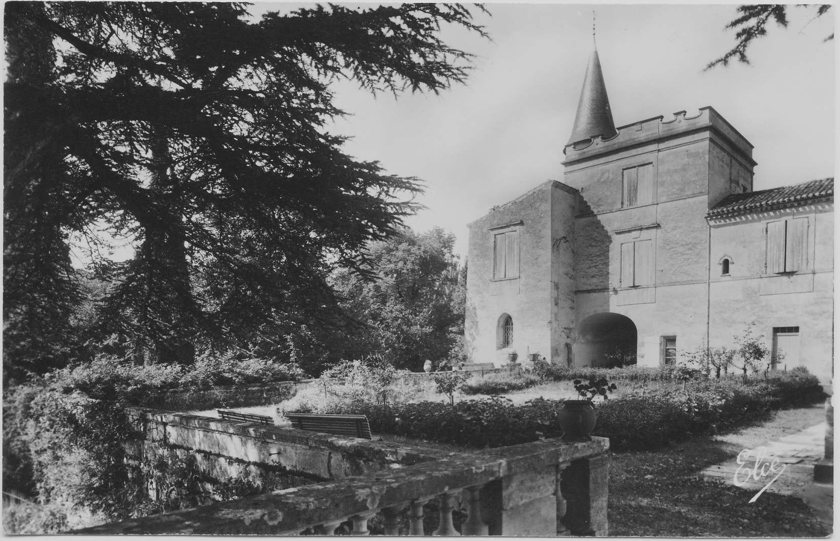 Photo Of turret at Chateau Lagorce